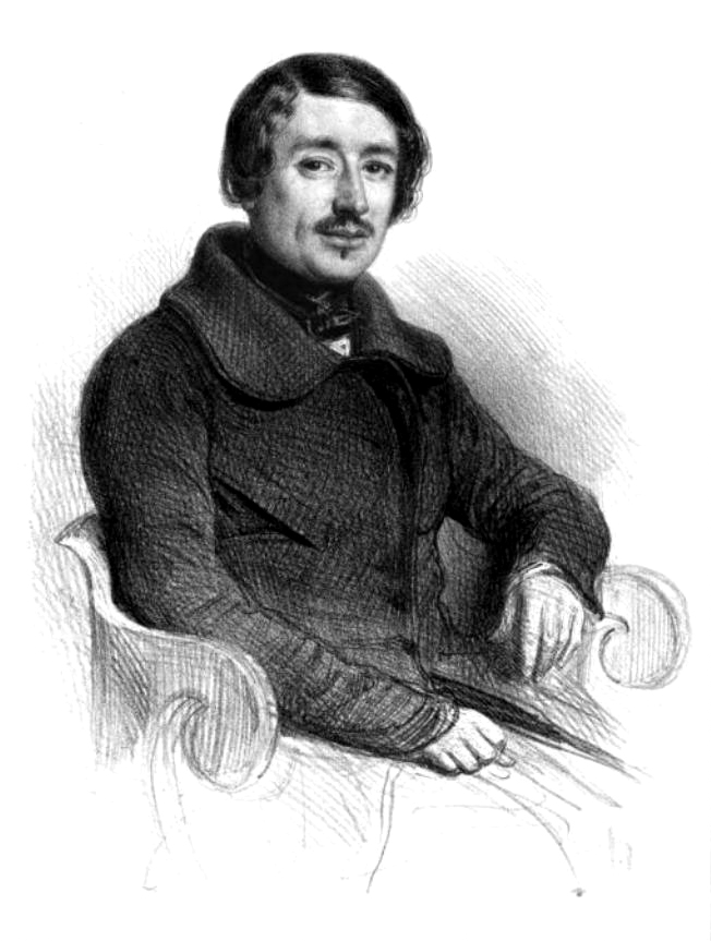 Drawing of Denis Auguste Marie Raffet (1804-1860), French illustrator and lithographer